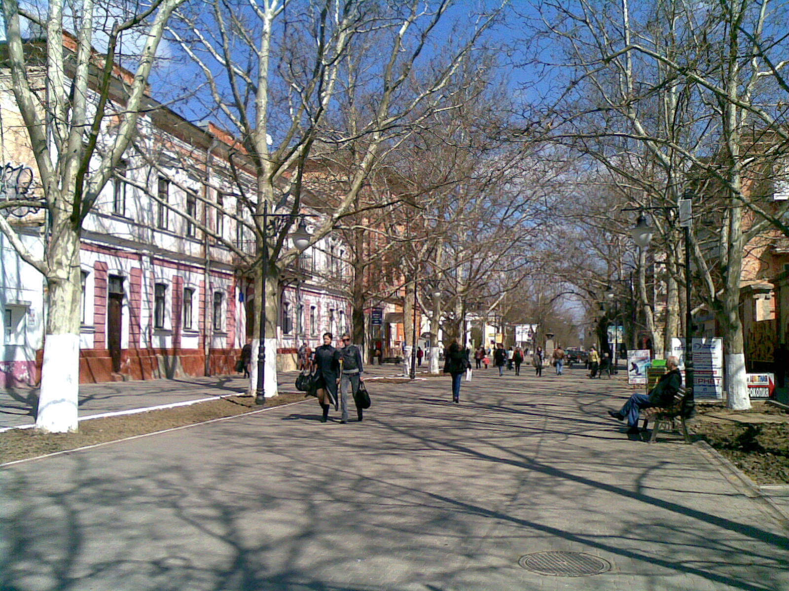 Suvorov street